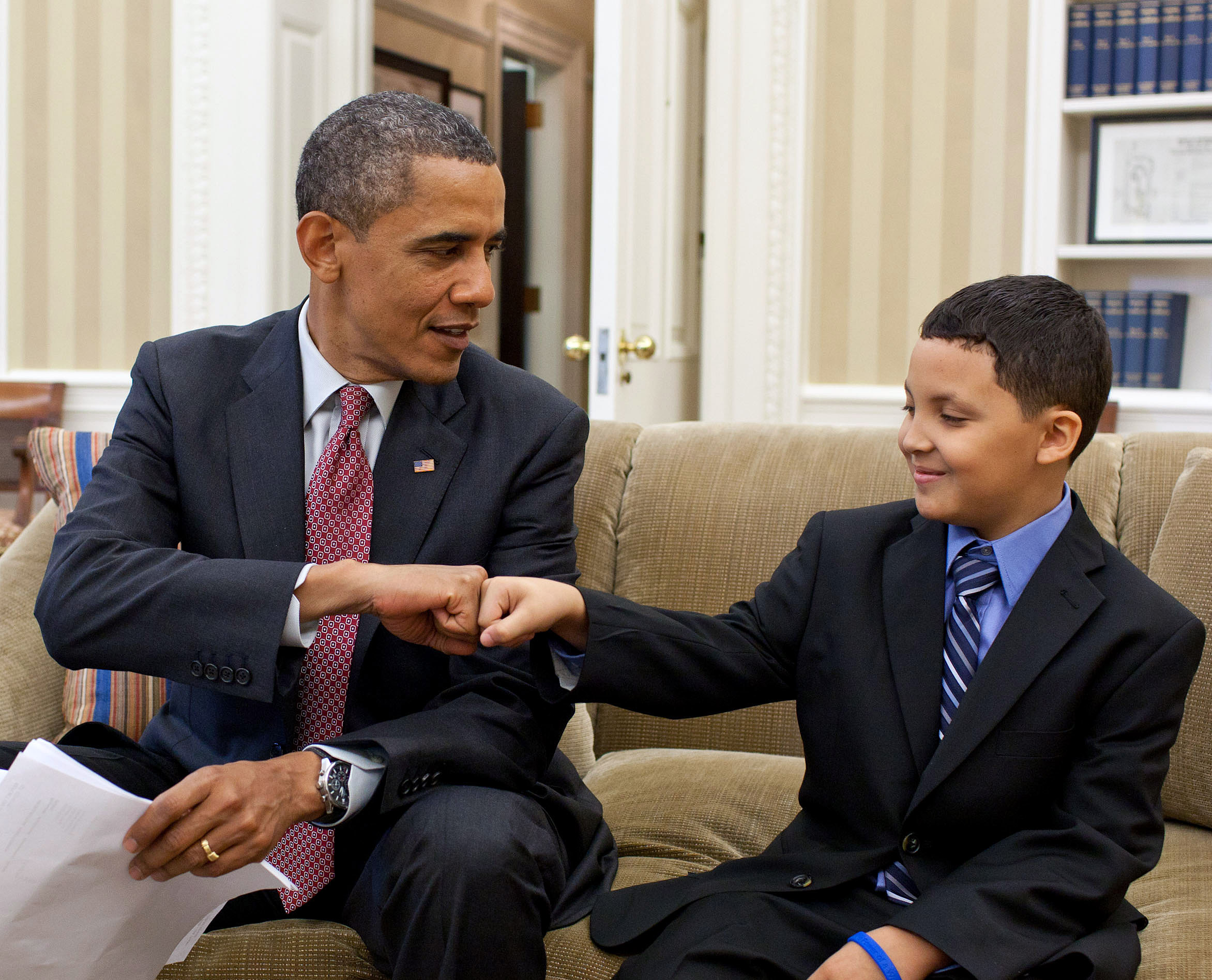 President Barack Obama fist-bumps Make-a-Wish child Diego Diaz after reading a letter he wrote, during his visit in the Oval Office, June 23, 2011.